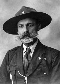 Kārlis Goppers in his Latvian Scouting uniform